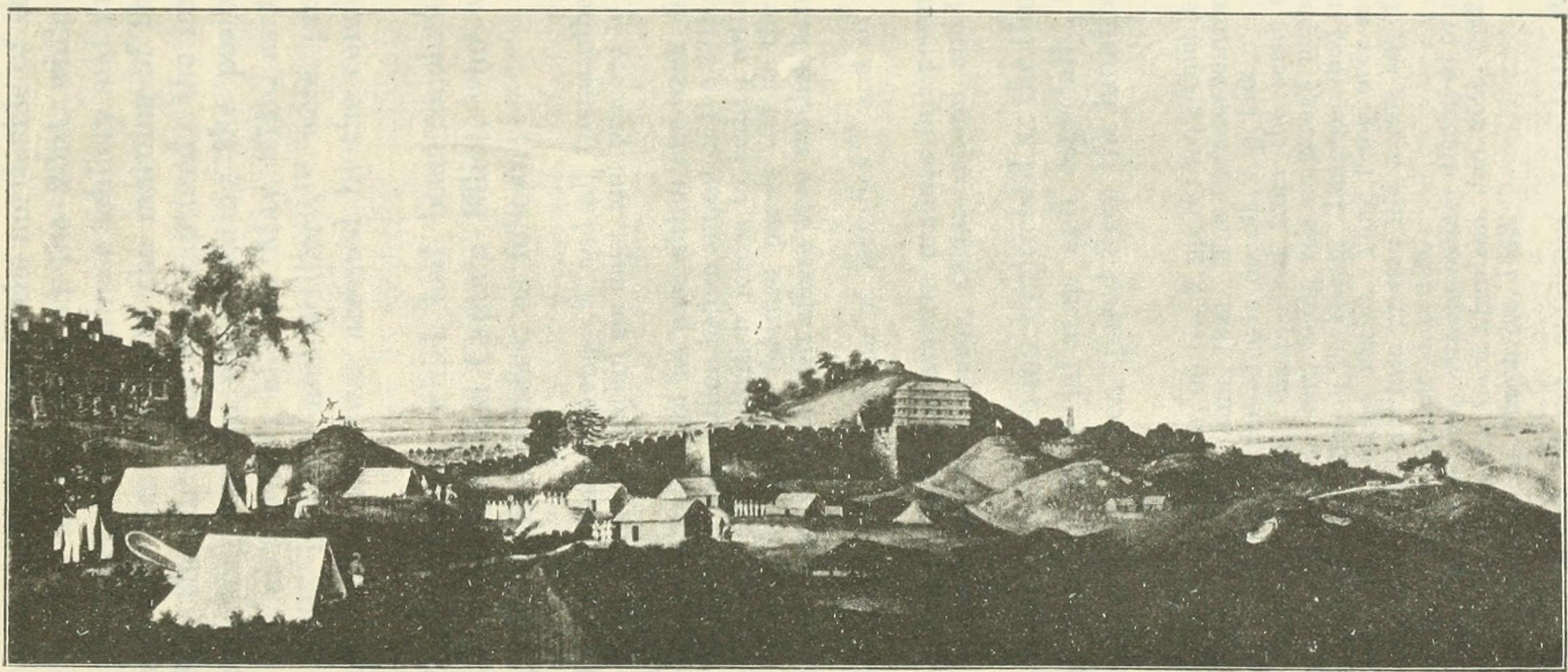 Preparing for the assault on Canton, 27 May 1841.